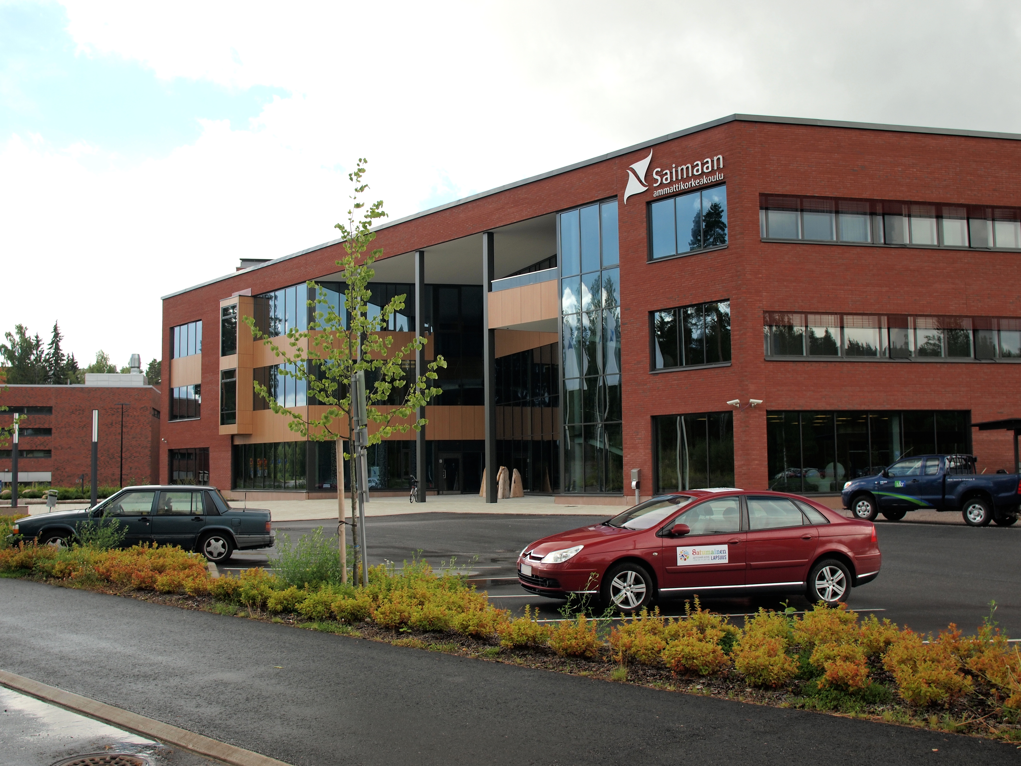 Saimaa University of Applied Sciences' Skinnarila campus area's main building in Lappeenranta, Finland.